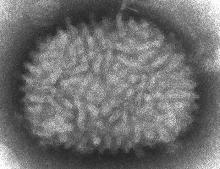 An electron micrograph of a Vaccinia virus. Vaccinia virus is normally confined to cattle, but is conveyed to humans through vaccination, thereby, imparting immunity to the smallpox virus.